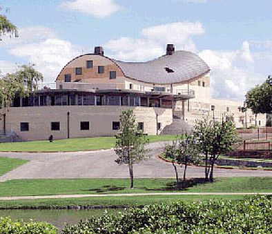 San Angelo Fine Arts Museum